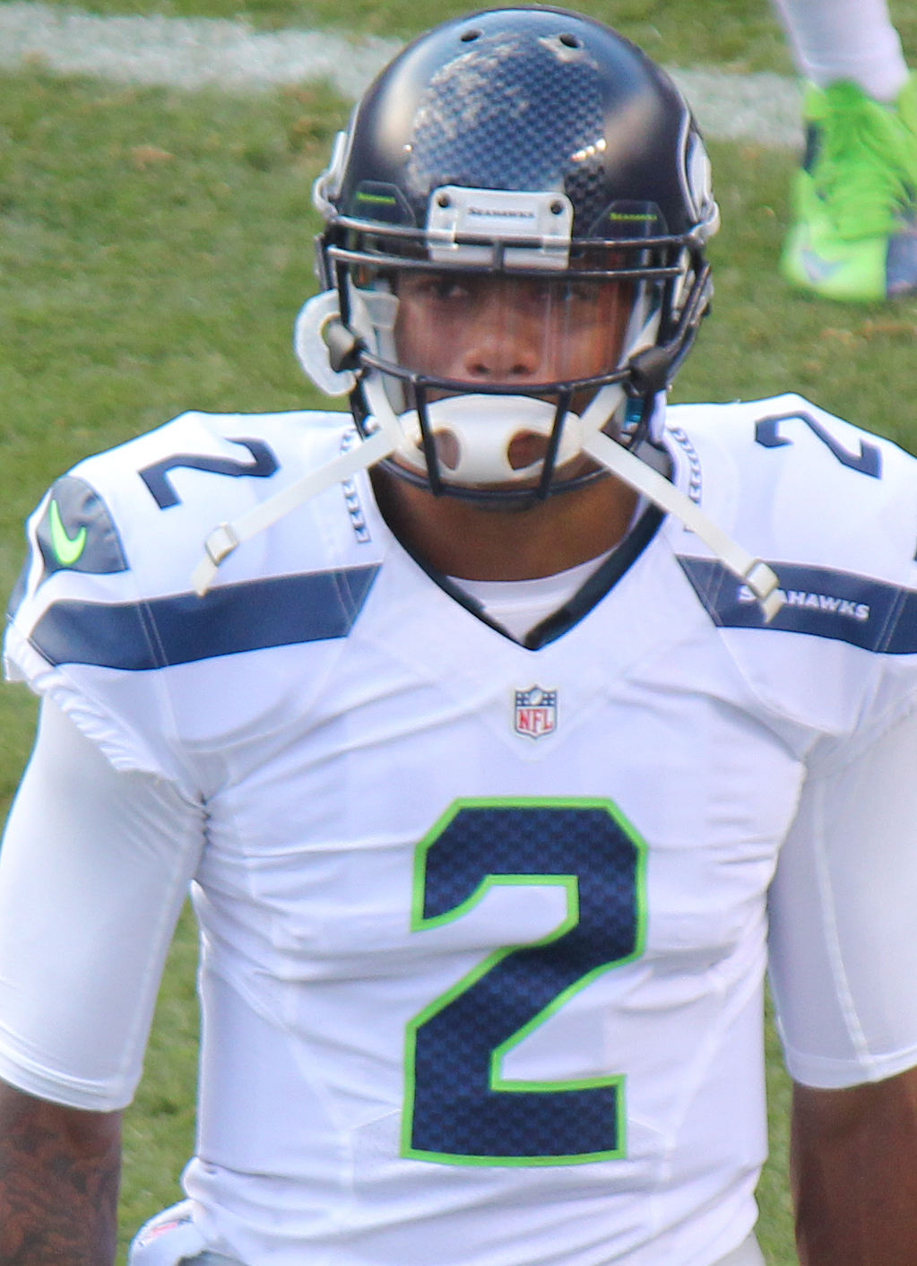 Terrelle Pryor, a player on the National Football League.